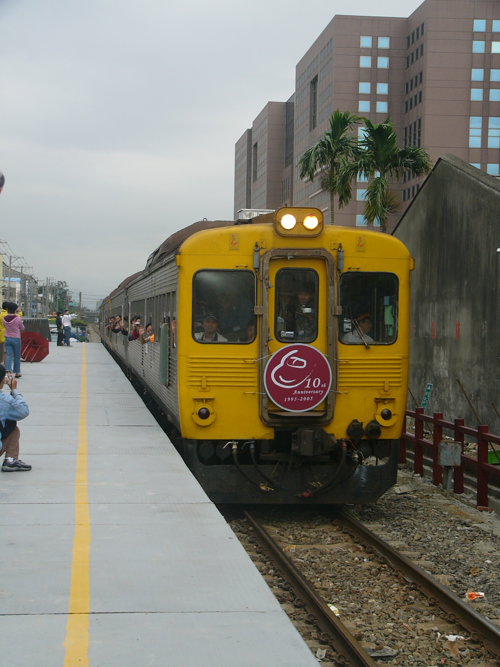 Diesel Railcar (DR2700 series) in LinKou Line of Taiwan Railway. This train was held by Railway Culture Society (RCS) of Taiwan in order to 10 years anniversary of RCS.